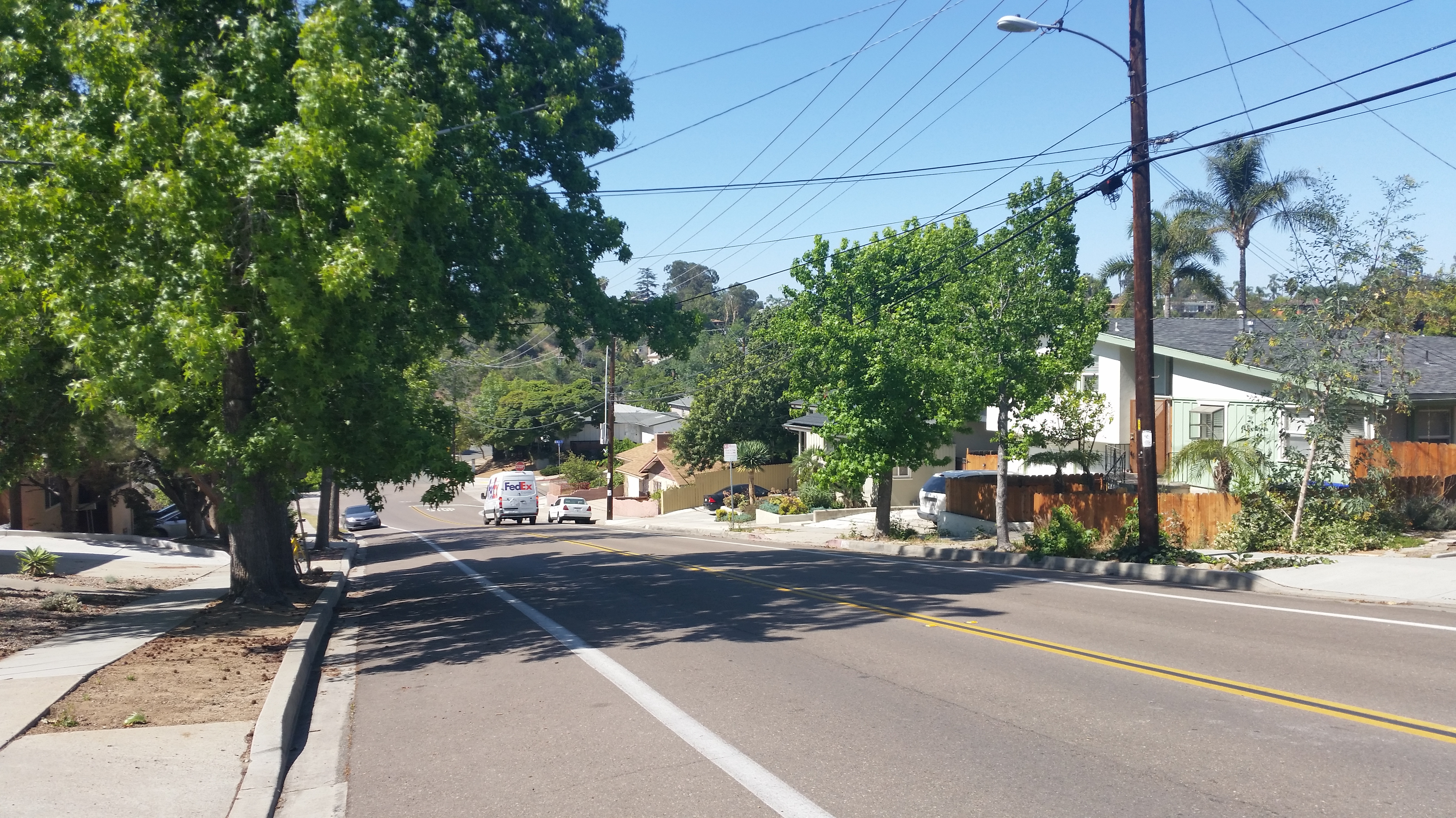 An image taken looking southward on the east side of Campanile Drive